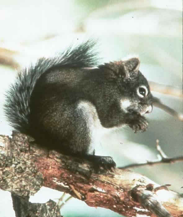 USFWS image of the endangered Mount Graham Red Squirrel (Tamiasciurus hudsonicus grahamensis)